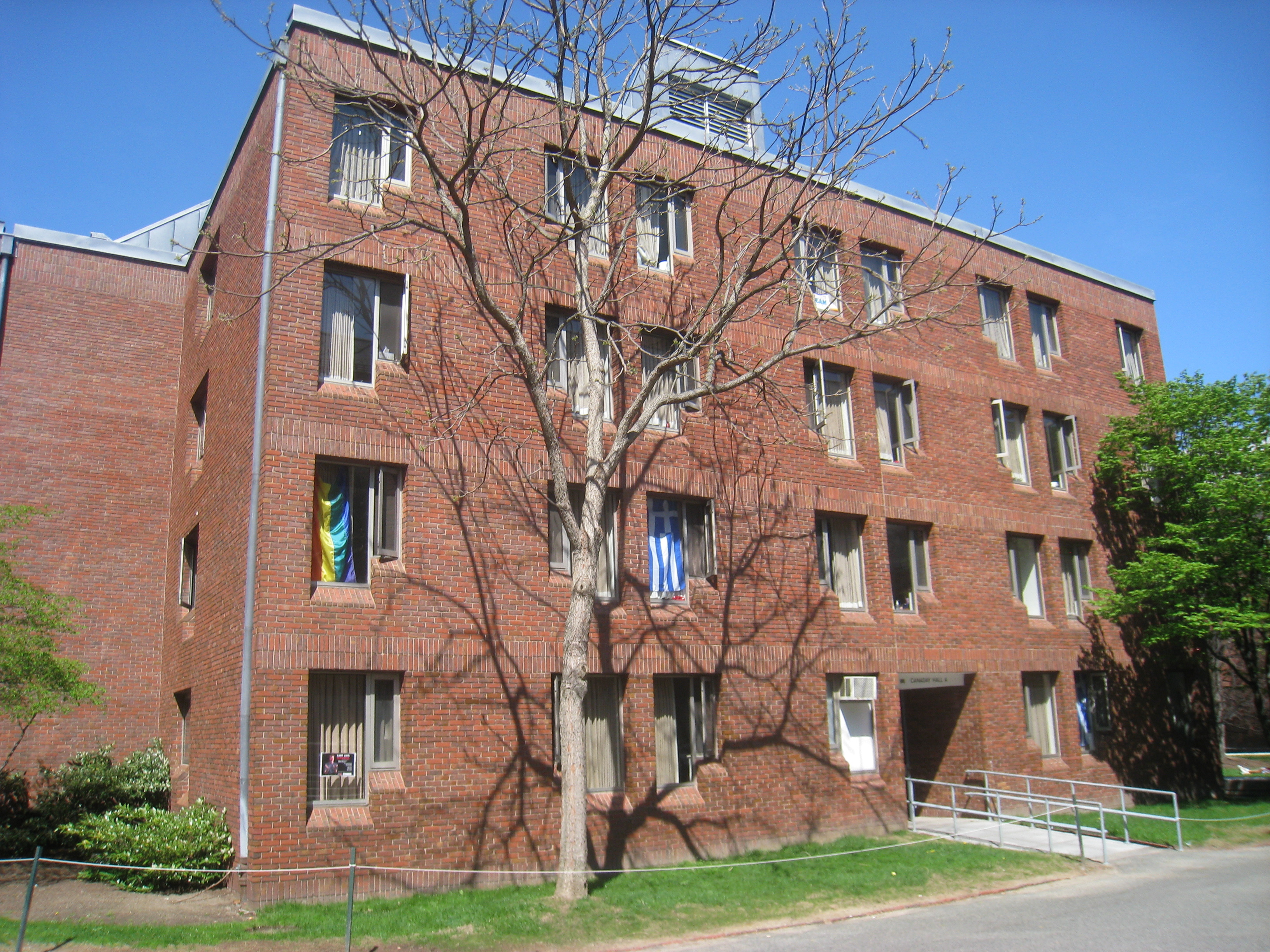 Canaday Hall, Harvard University, Cambridge, Massachusetts, USA.